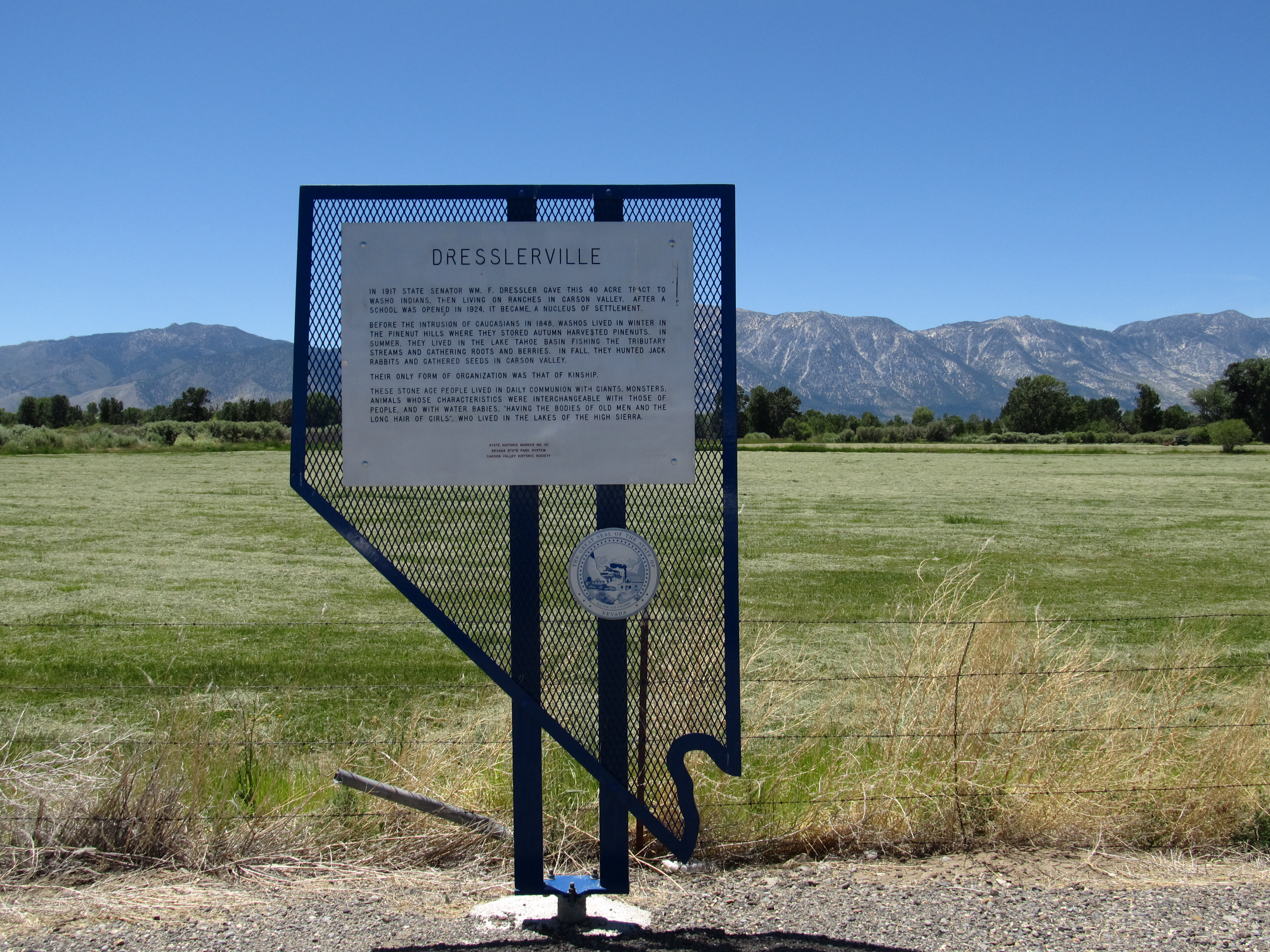 In 1917 State Senator William F. Dressler gave this 40-acre tract to Washo Indians, then living on ranches in Carson Valley. After a school was opened in 1924, it became a nucleus of settlement.